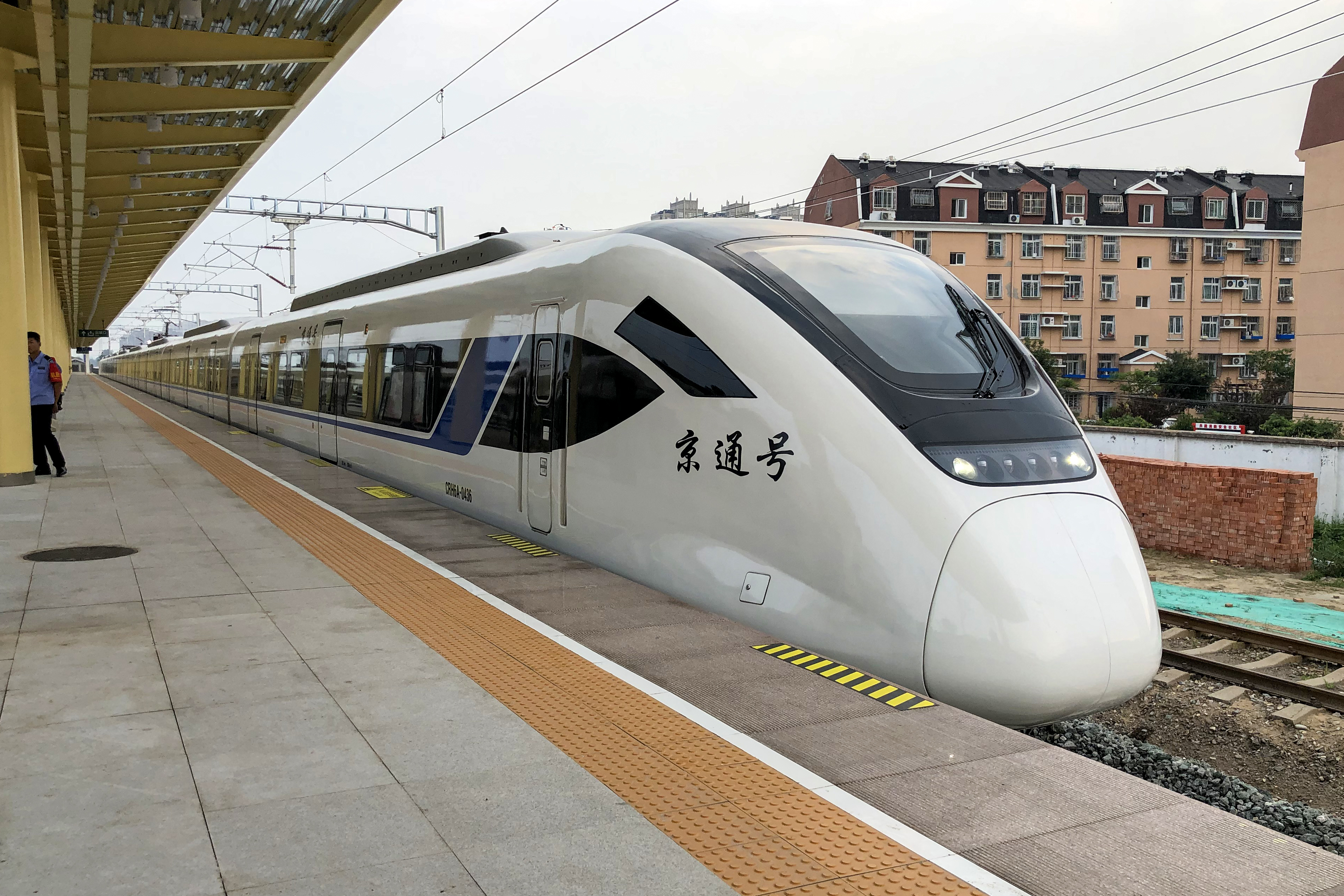 S106 to Beijing West. The second train of this evening is seen waiting at Platform 1.